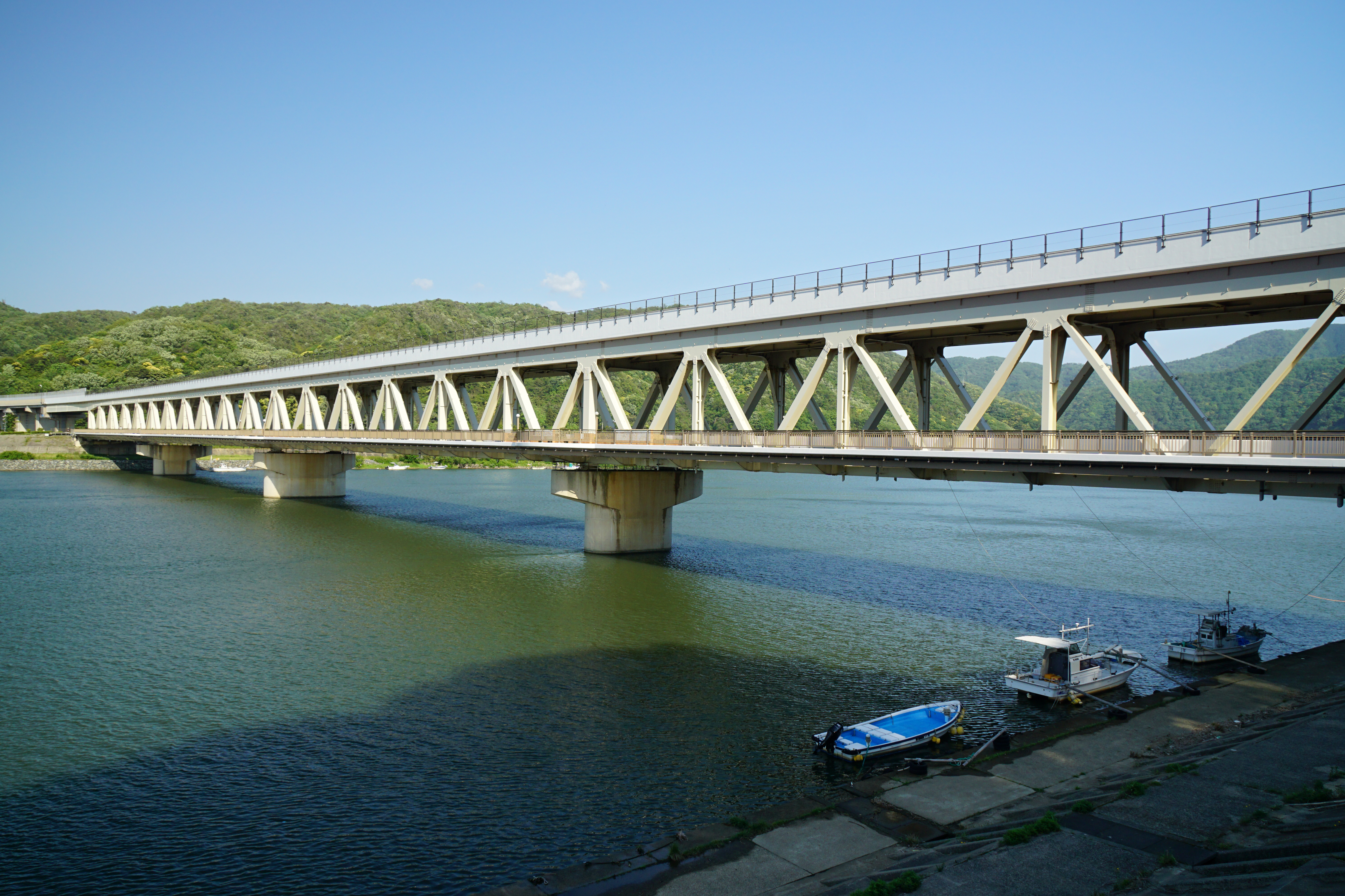 Gōnokawa River at Gotsu, Shimane prefecture, Japan